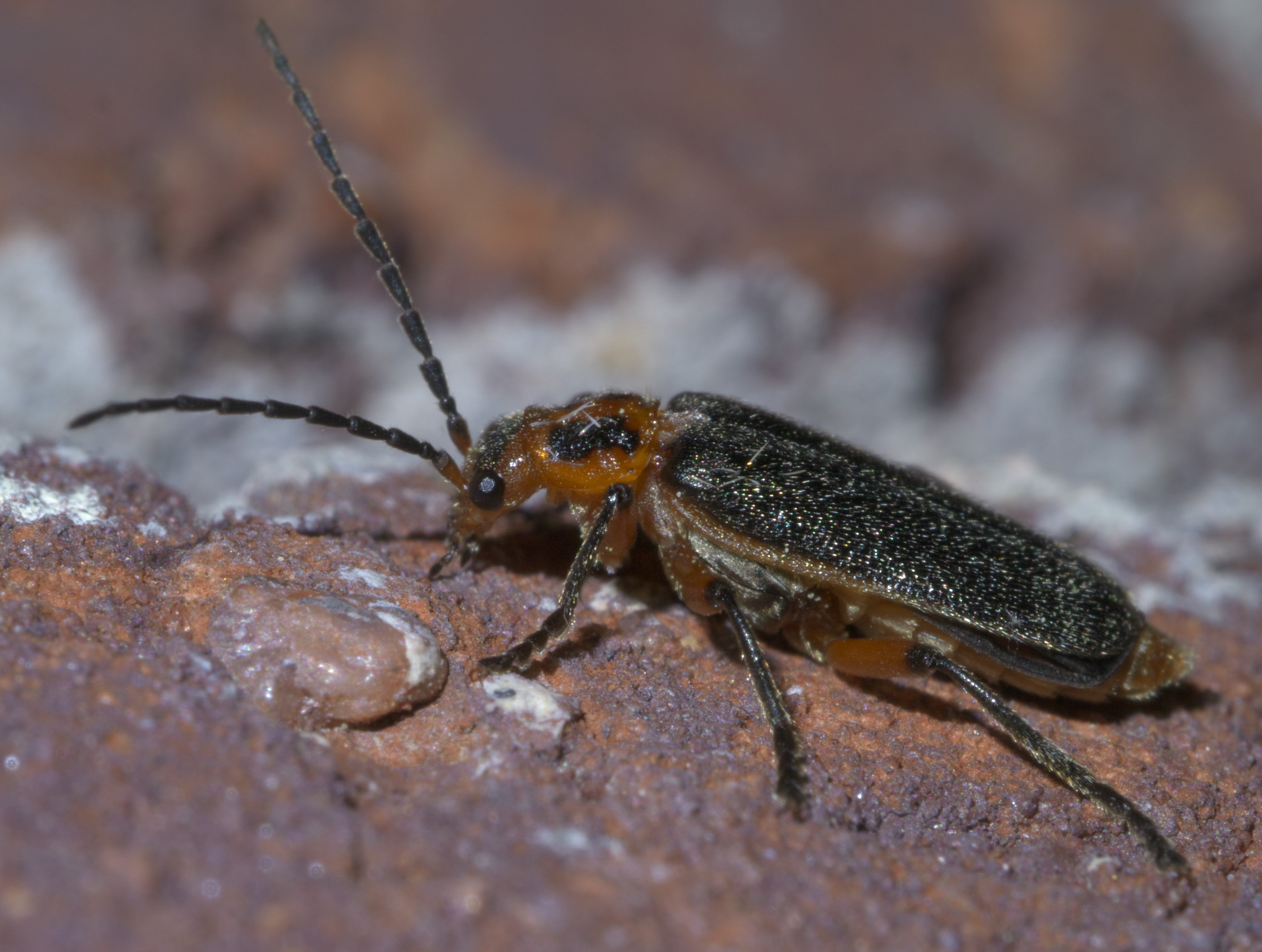 Atalantycha bilineata, Family: Soldier Beetles, Size: 8.1 mm, ID Confidence: 88